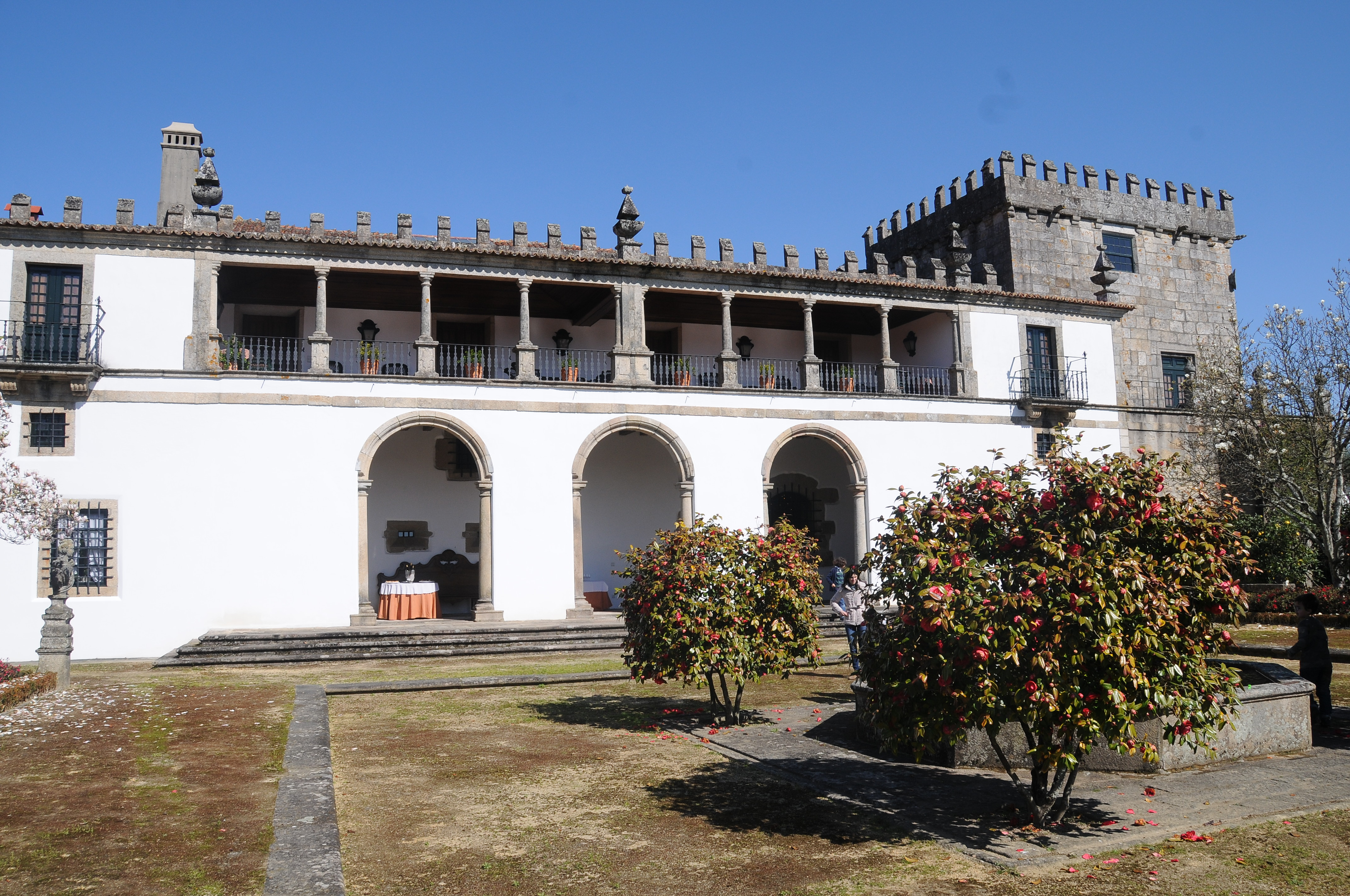 Solar de Azevedo in Lama Barcelos, Portugal.